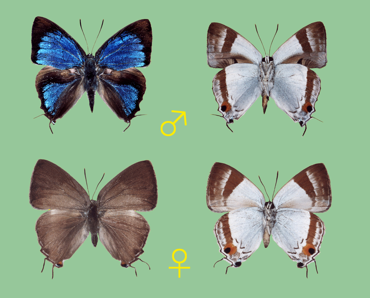 Rachana mioae, male and female